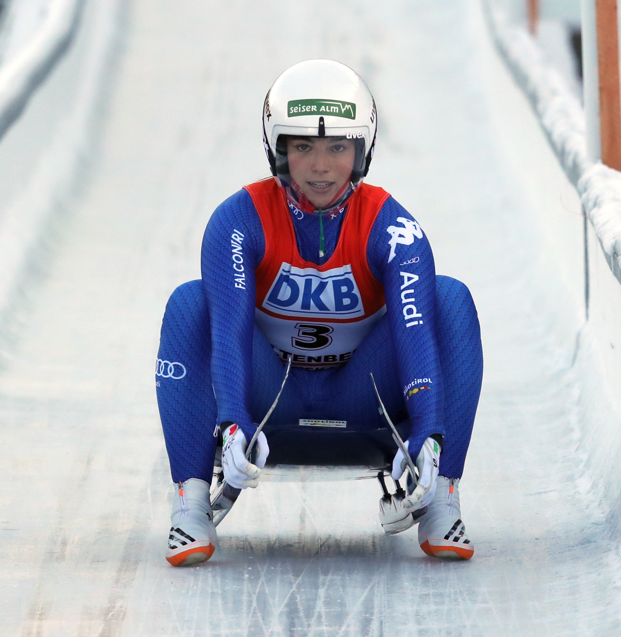 Sandra Robatscher (Italia) at the women's Nationscup race in Altenberg